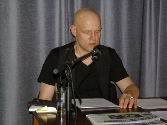 Norbert W. Schlinkert, 2016